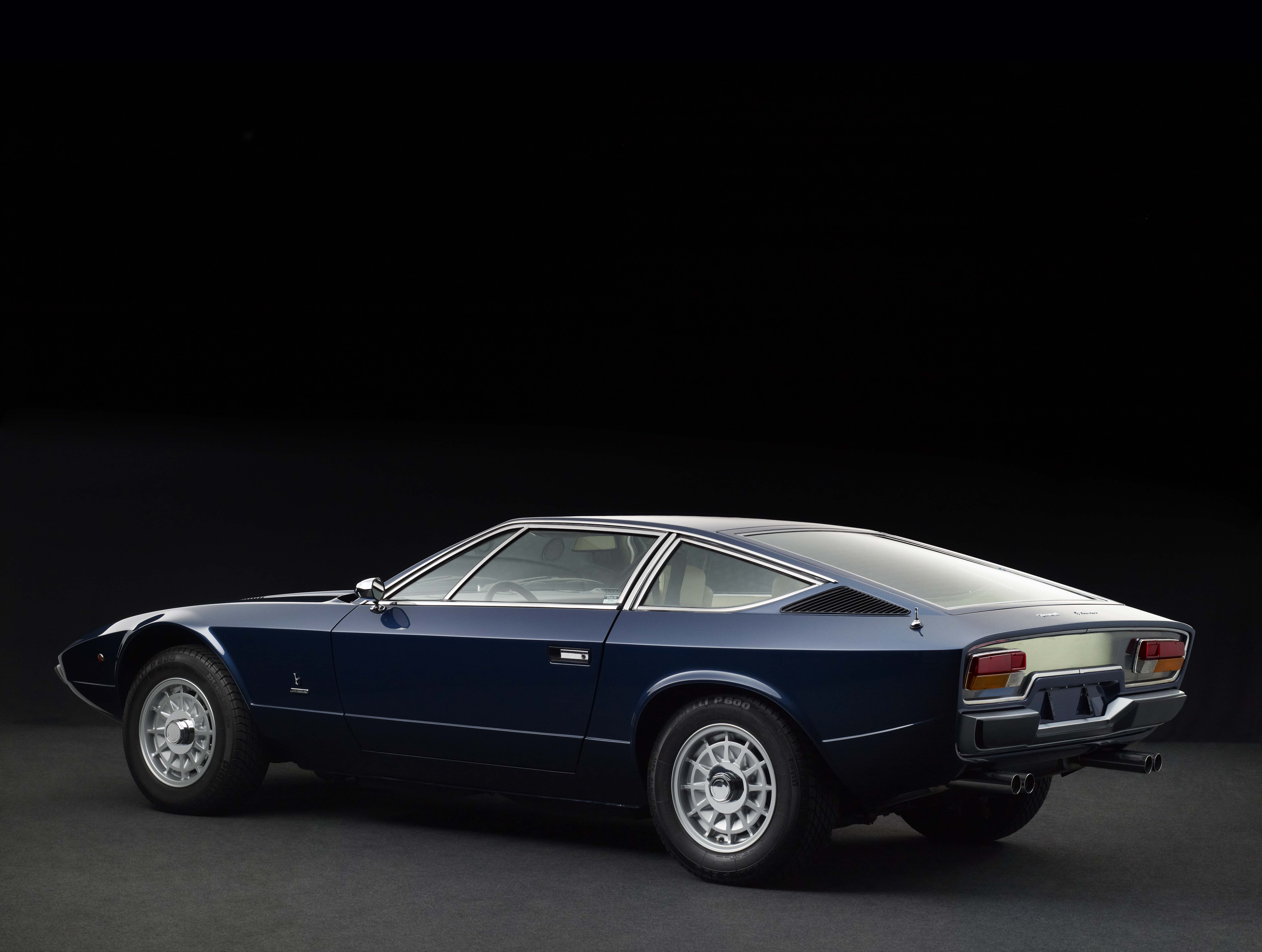 Maserati Khamsin 1975 (AM120160, back)